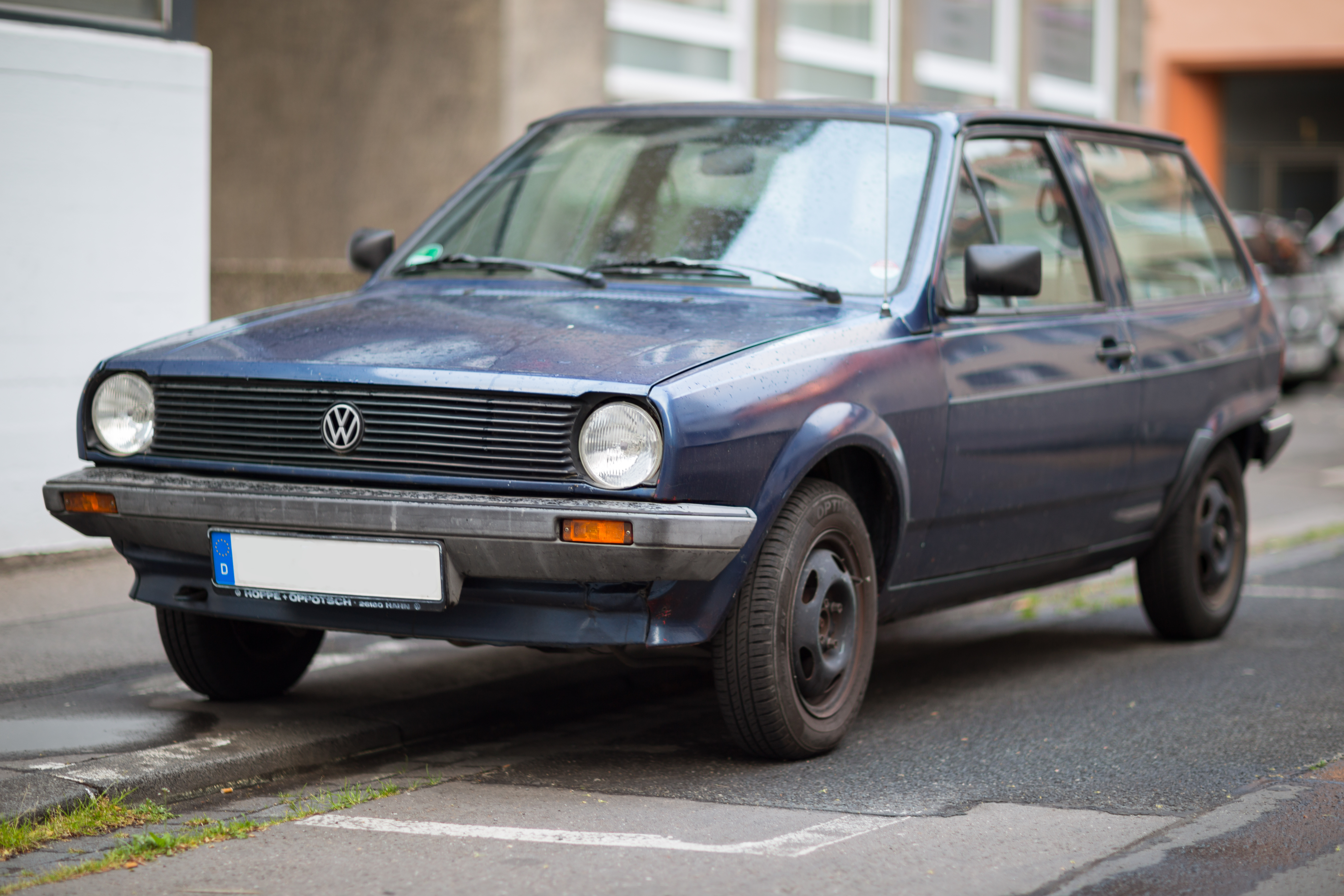 Volkswagen Polo Mk. II type 86C hatchback.